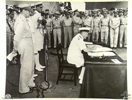 AWM Description: Tokyo Bay -- Surrender of Japanese aboard USS "Missouri". Admiral Sir Bruce Fraser, commanding British Pacific fleet, signs the instrument of surrender on behalf of the United Kingdom. Other British representatives stand alongside General Douglas MacArthur at the microphone.